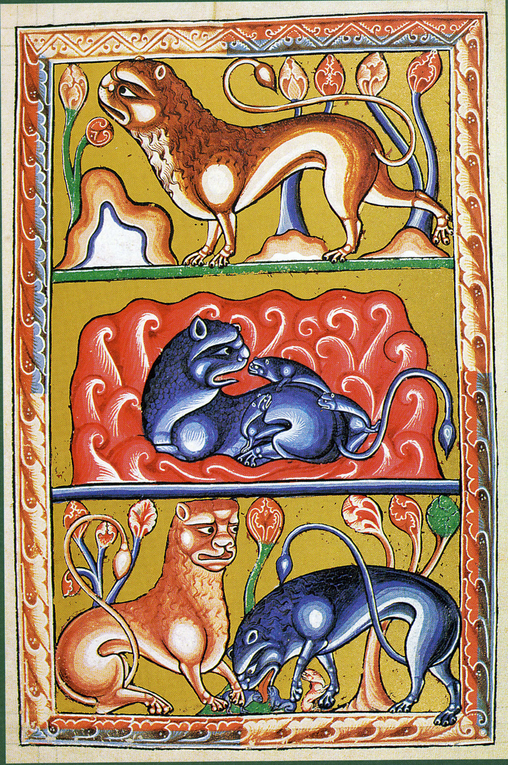 Bodleian Library, MS. Ashmole 1511, The Ashmole Bestiary, Folio 21r : Leone and Bear, England (Peterborough?), Early 13th century.